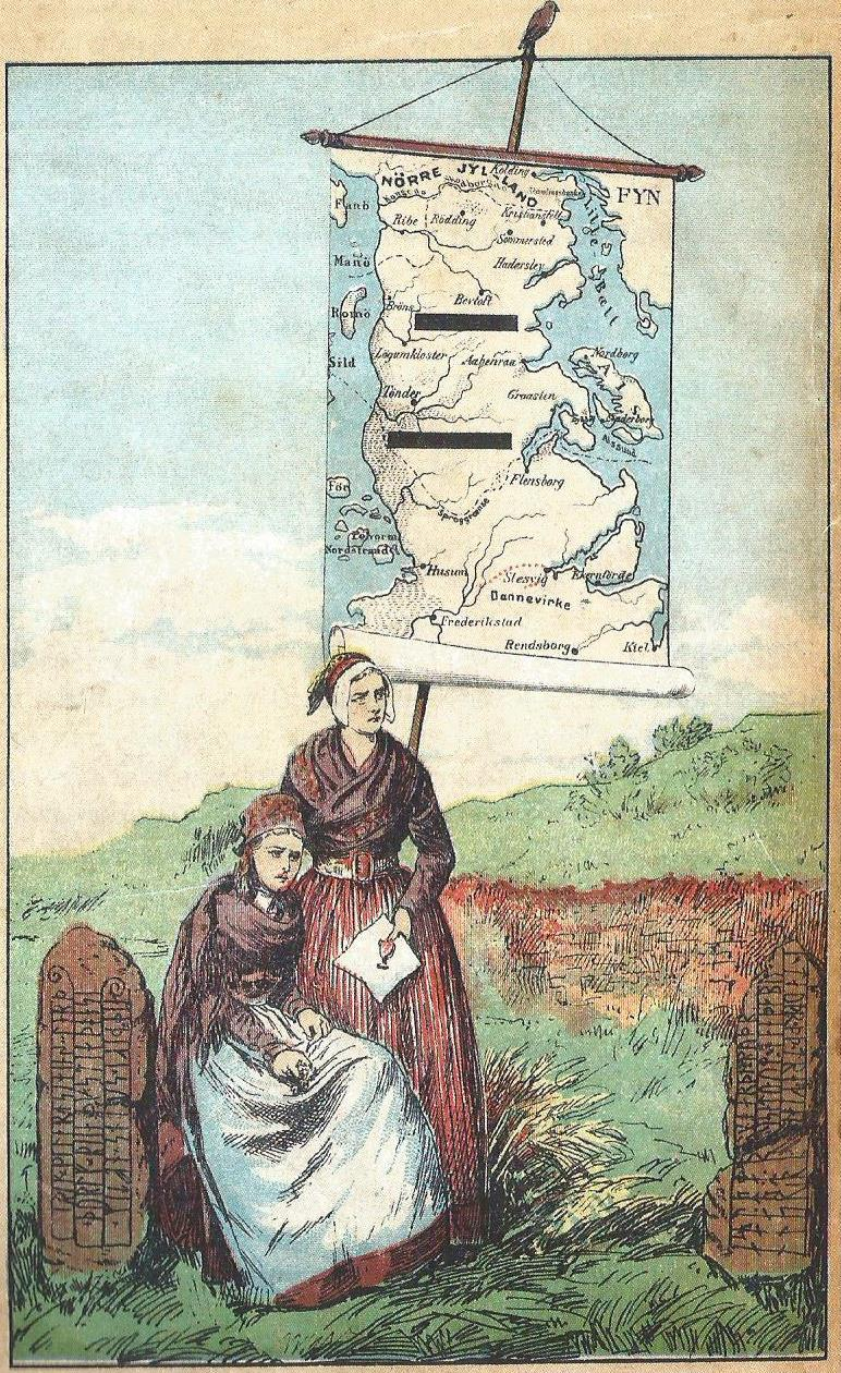 Drawing from an almanac issued by the Danish language association (Sprogforeningen) from 1910, depicting two girls from Sønderjylland, wearing the rural clothing of the islands Föhr and Als, standing between two runestones in front of the Valdemar Wall in the historical Dannevirke fortification. In the background, a map of Sønderjylland with its name oblierated by black bars, since the region's Danish name "Sønderjylland" had been outlawed by Prussian authorities in 1895. The girls represent both the eastern and the western parts of the province, one from either of the post-1920 North and Southern Schleswig. The line crossing the region near the city of Flensburg shows the region's contemporary language border between Danish and German.